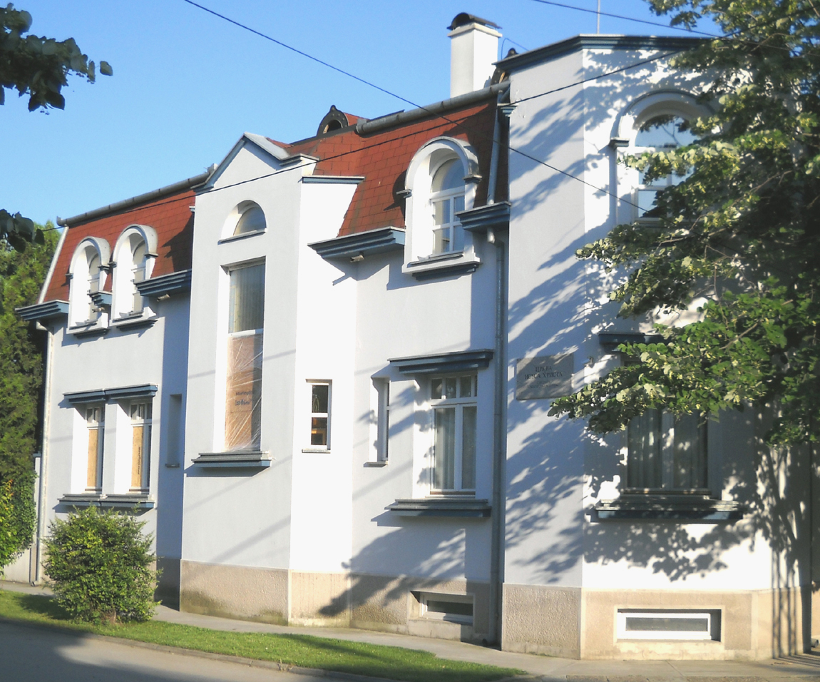 A meetinghouse of The Church of Jesus Christ of Latter-day Saints in Novi Sad, Serbia.